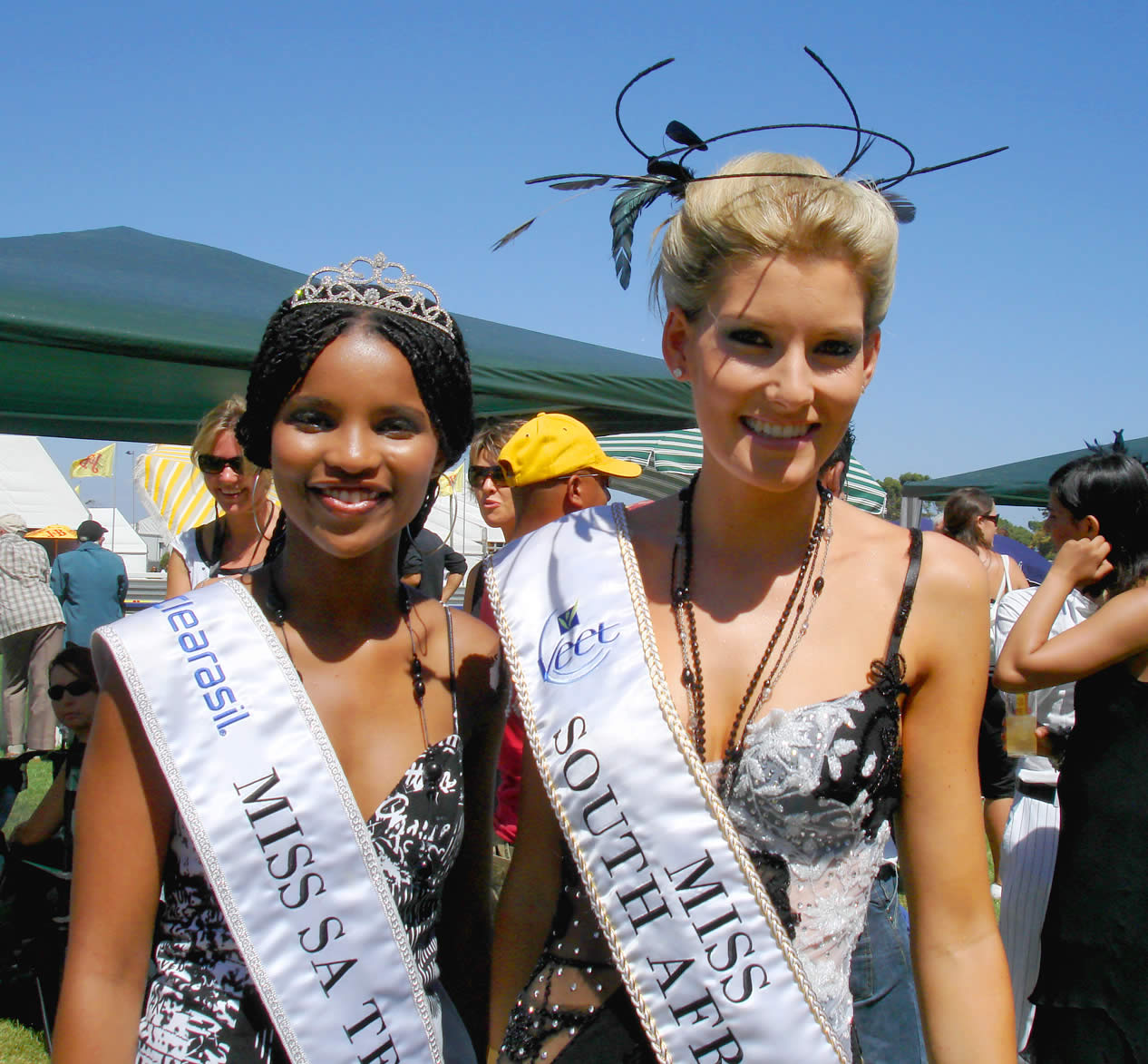 Staying true to the theme: Miss SA Teen and Miss South Africa 2006, Megan Coleman